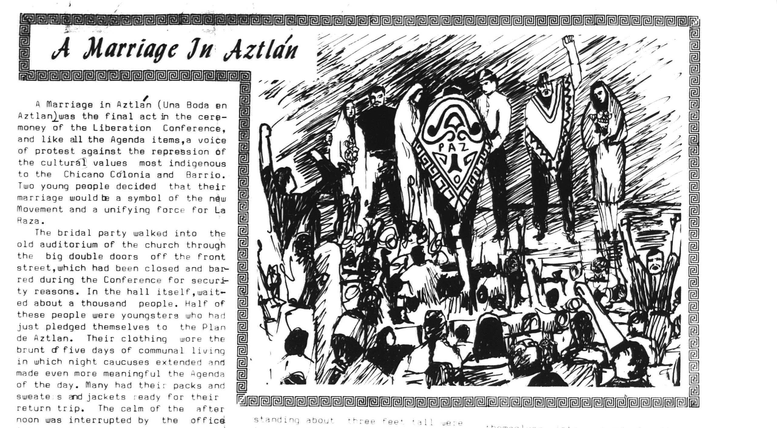 An Article and art about what a marriage in atzlan would have been like.